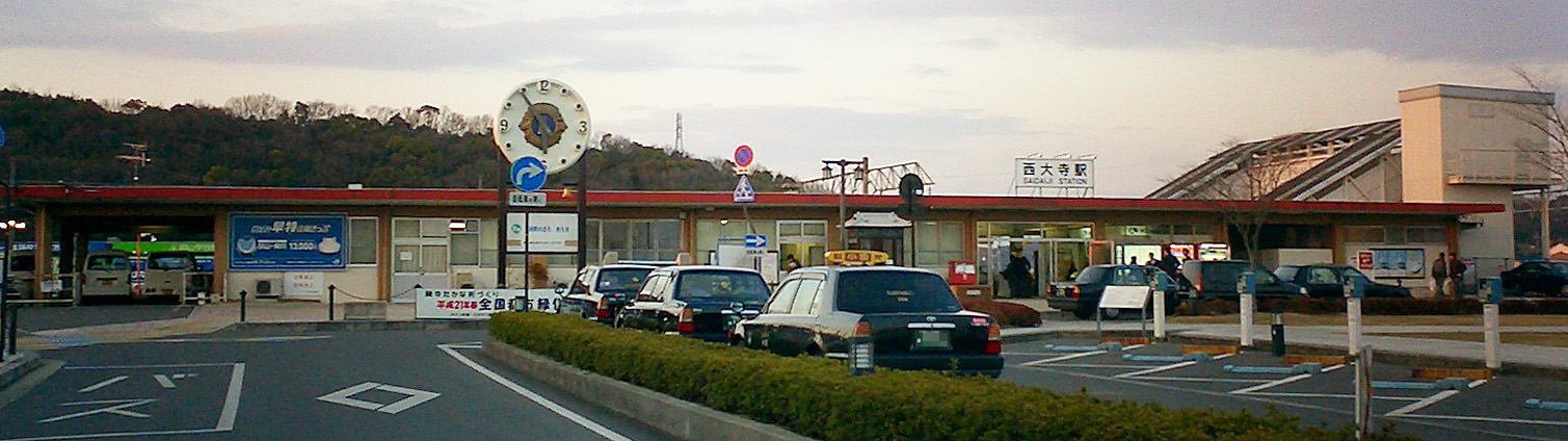 West Japan Railway Akō Line Saidaiji Station Building